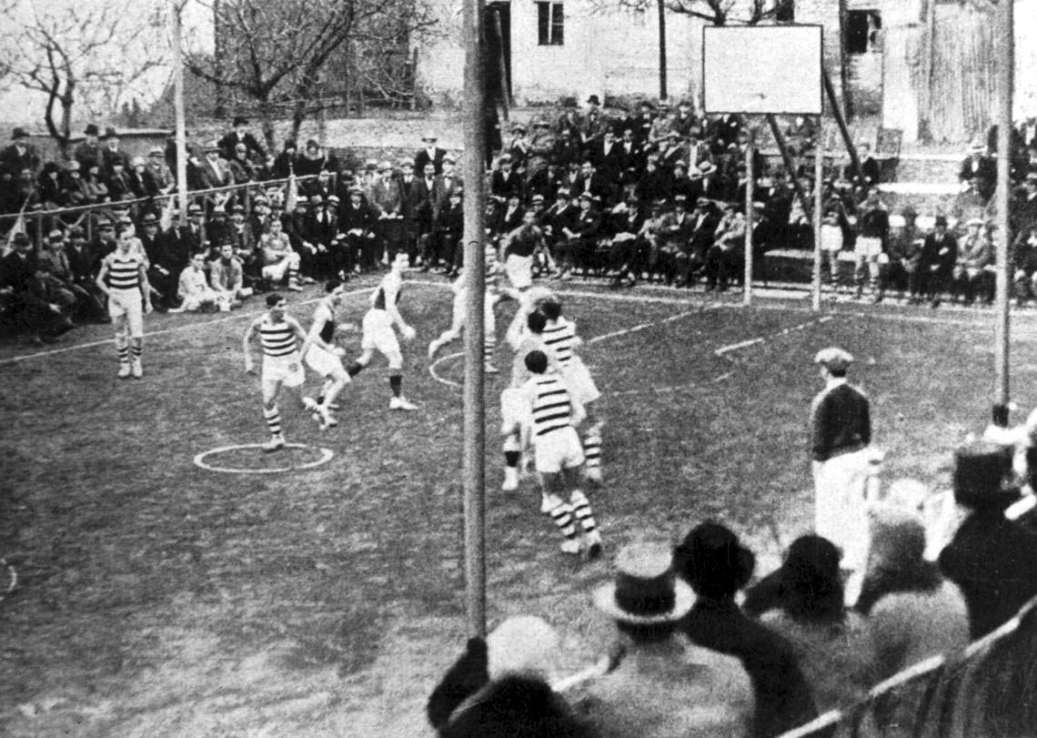 The first "Campeonato Argentino de Clubes" match ever: Santa Fe v. Córdoba, played in Buenos Aires.